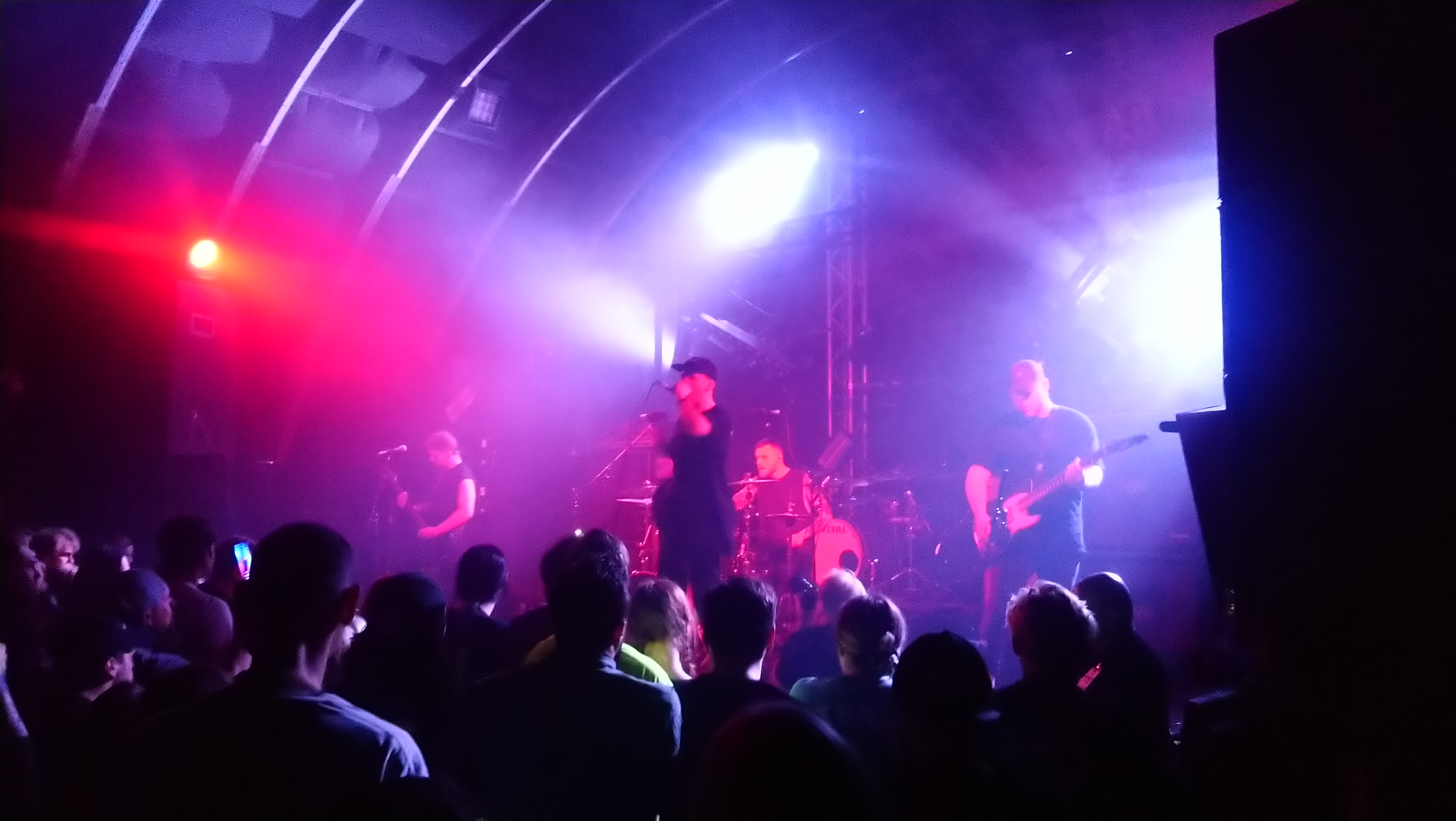 Void of Vision opening for Northlane, 2019.